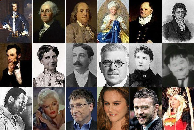 English-Americans. Anyone can use these original photos themselves among others and make another collage of (English American) people themselves or remix as they wish, as long as they give the correct source and usage/Copyright given. Dont delete the photos, if one becomes unusable due to copyright, please dont delete, just replace the photo or i will.